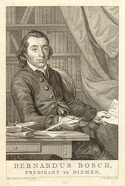 Bernardus Bosch, Dutch politician and writer